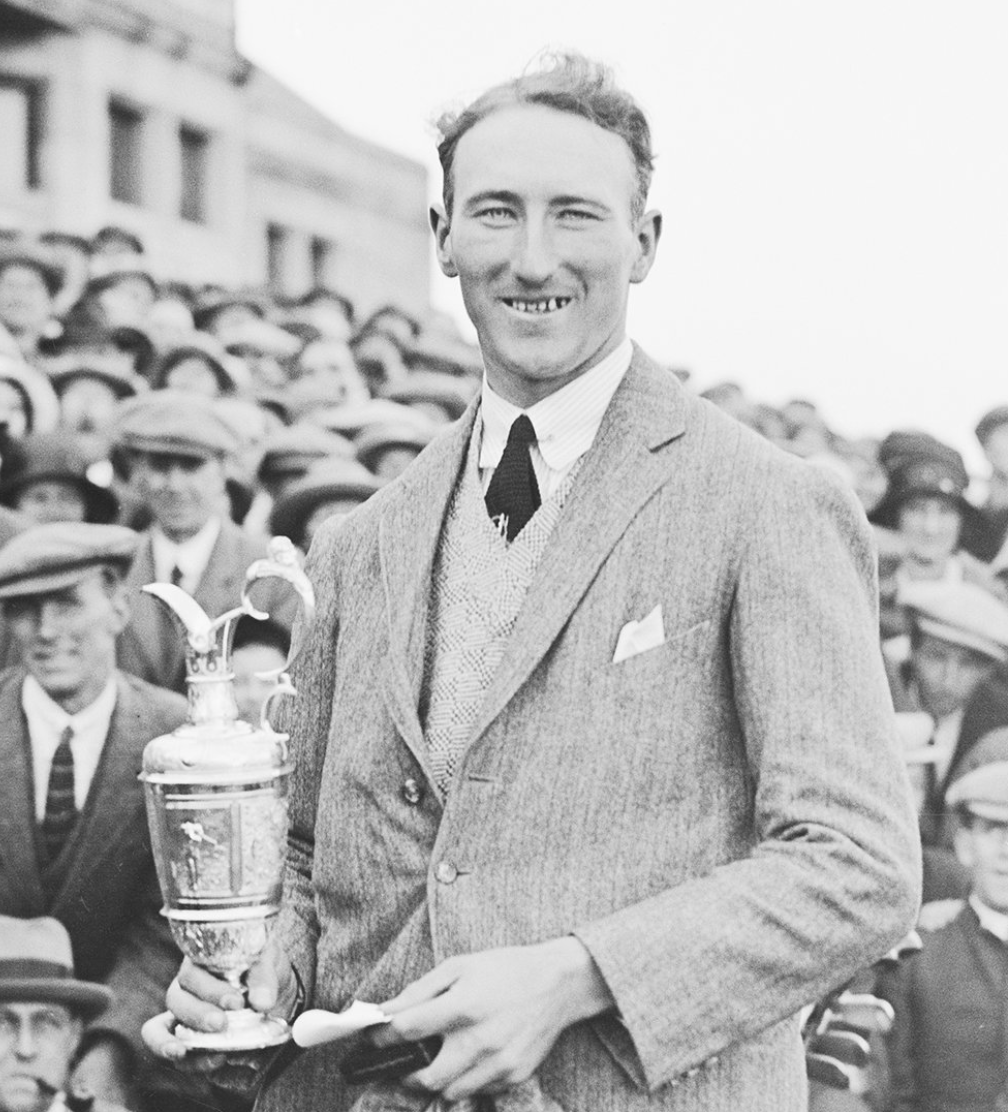 Arthur Havers, 1923 Open Champion. Golf. Royal Troon.